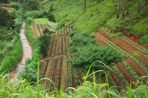 These terraces were planted with coffee in Vietnam, several hours outside of mountainous Da Lat.